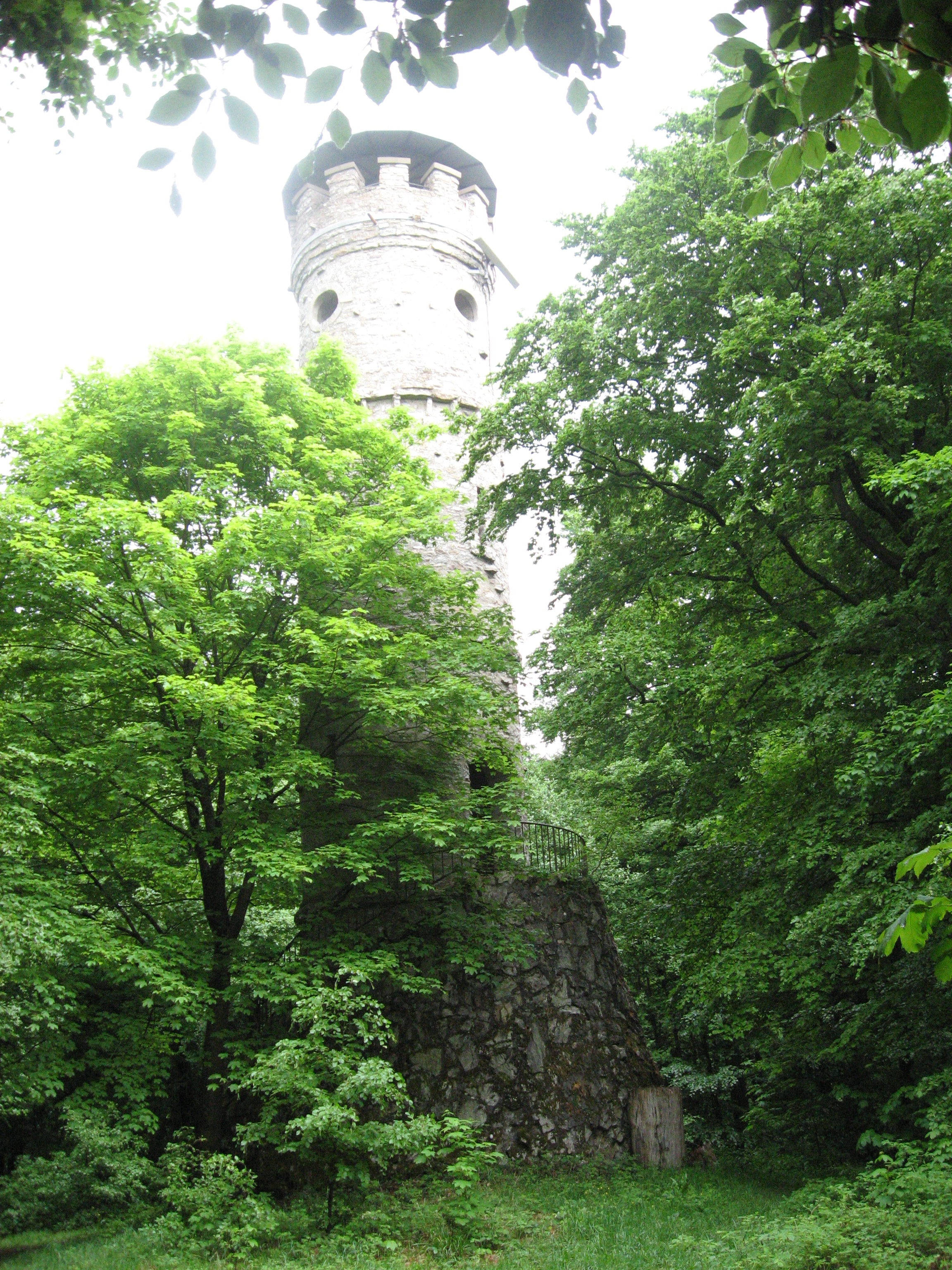 Alteburg tower in the Hunsrück landscape, Germany